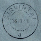 Širvintai-1927-post-mark